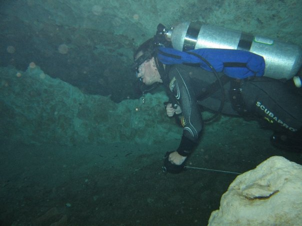 This is an image of a cave diver running a reel from the open water into an overhead environment.